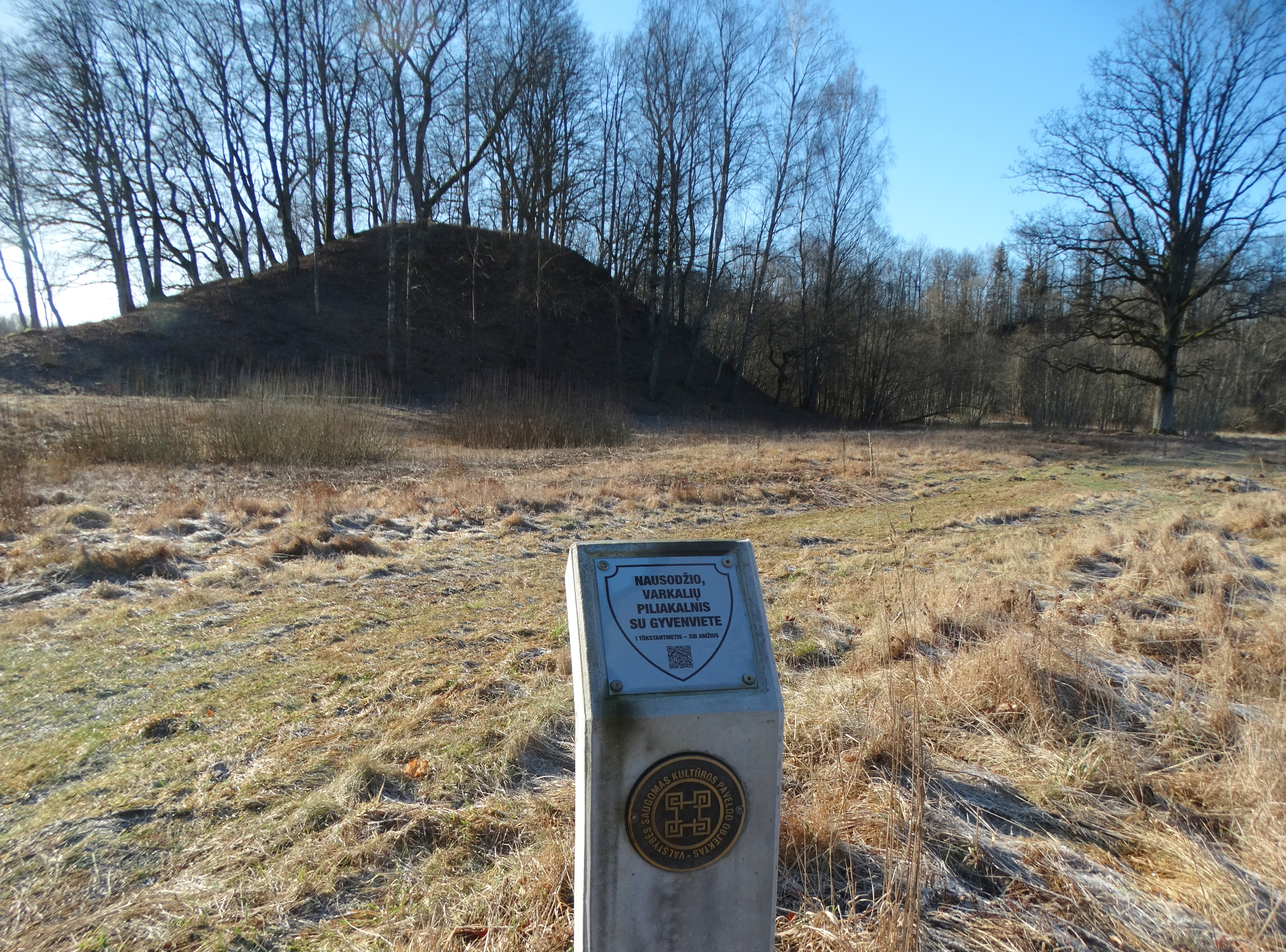 Nausodis hillfort (first) Varkaliai hillforts), Plungė district, Lithuania